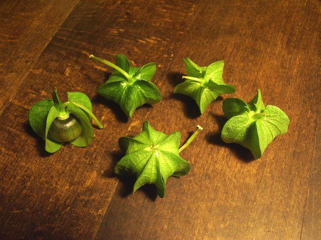 Some fruits of the Nicandra physalodes plant, one of which shows an untypical sevenfolded characteristic instead of the typical fivefolded characteristic